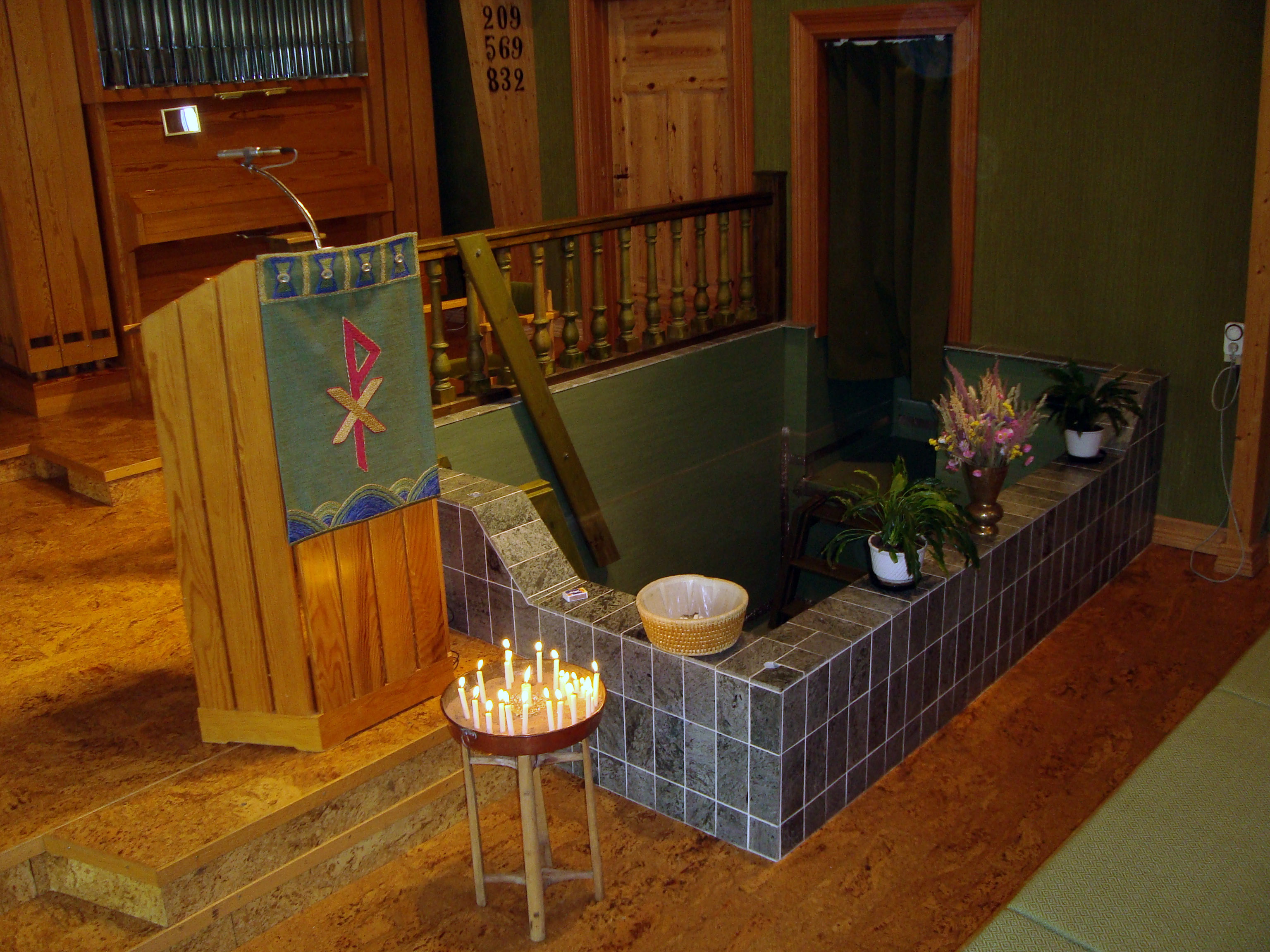 Immersion font, pulpit and part of organ in Vasakyrkan, Hedemora, Sweden